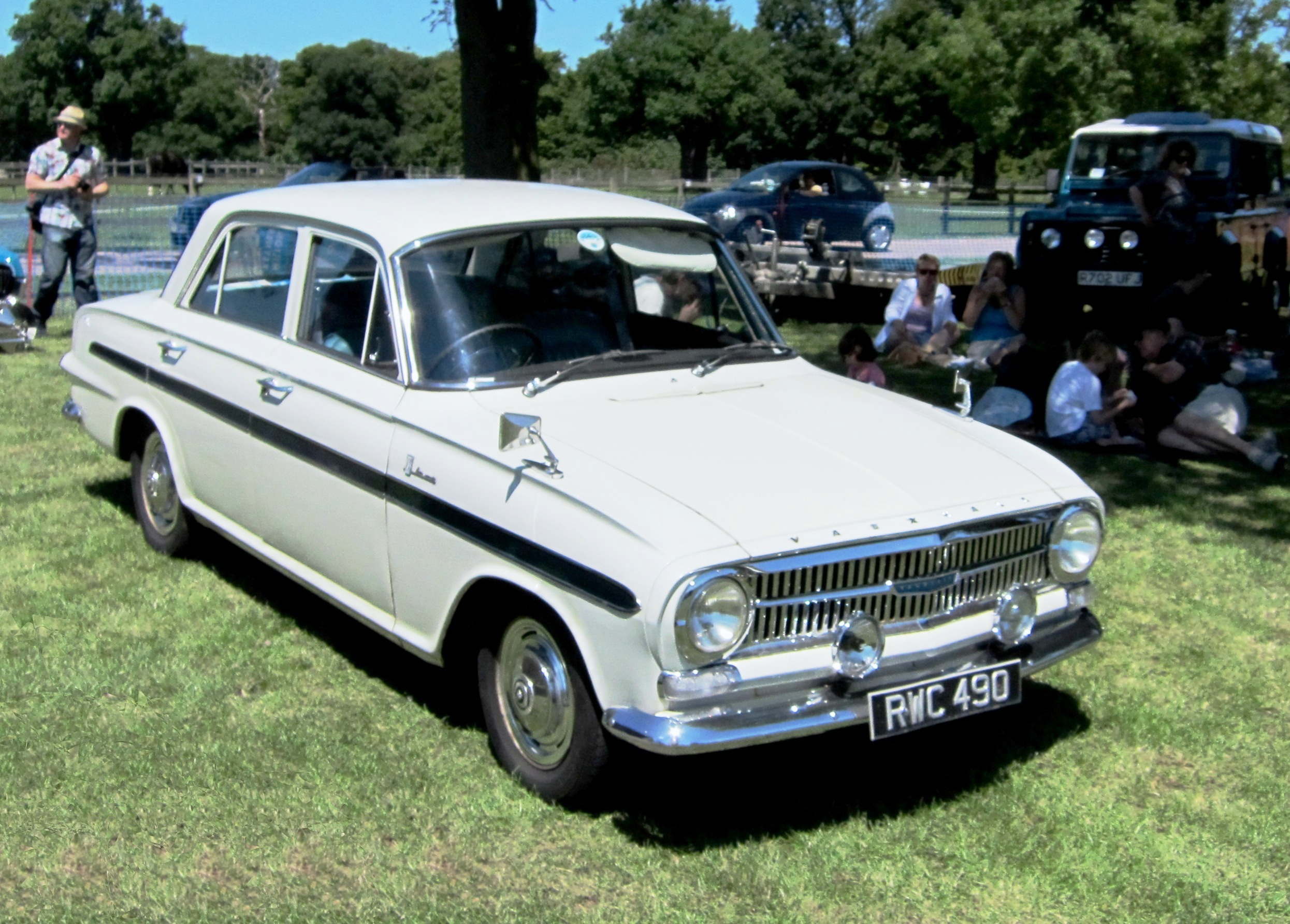 Vauxhall VX 4/90 in Essex. This was the "sporty derivative" of the Vauxhall Victor, with which the VX 4/90 shared its body, most of its engine and virtually everything else. But the VX 4/90 did have a second carburetter and high(er) performance brakes than its Victor sibling.